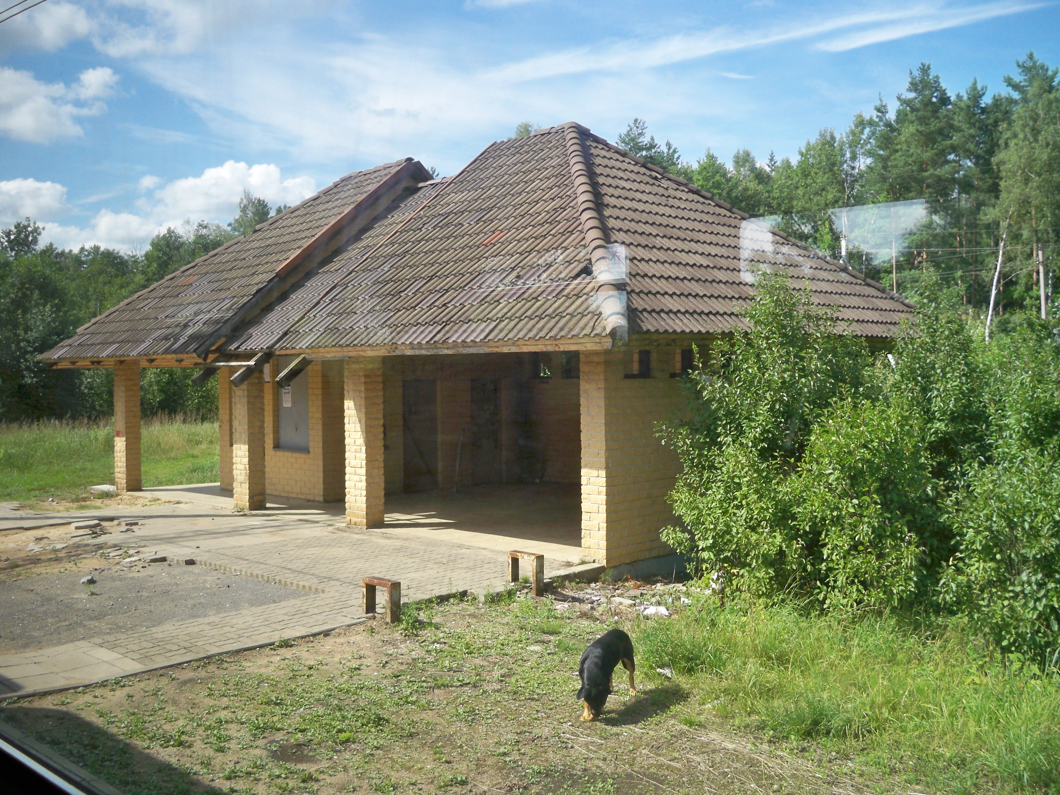 Karčiupis railstation.